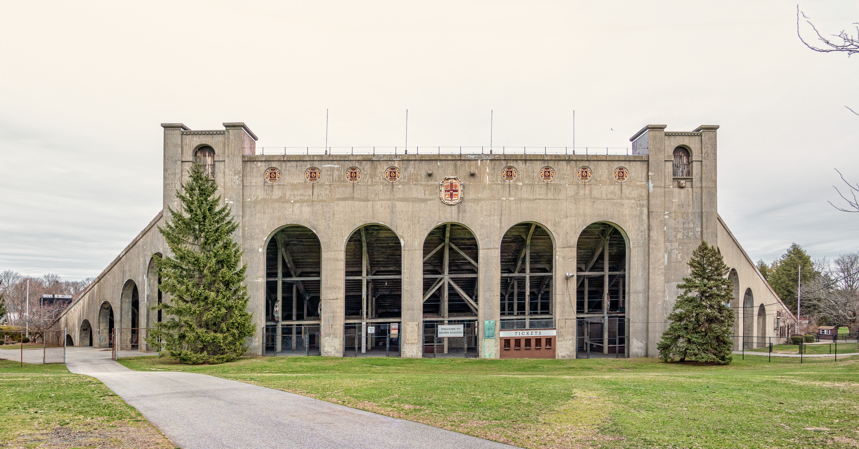 Exterior of Brown University football stadium, Providence Rhode Island